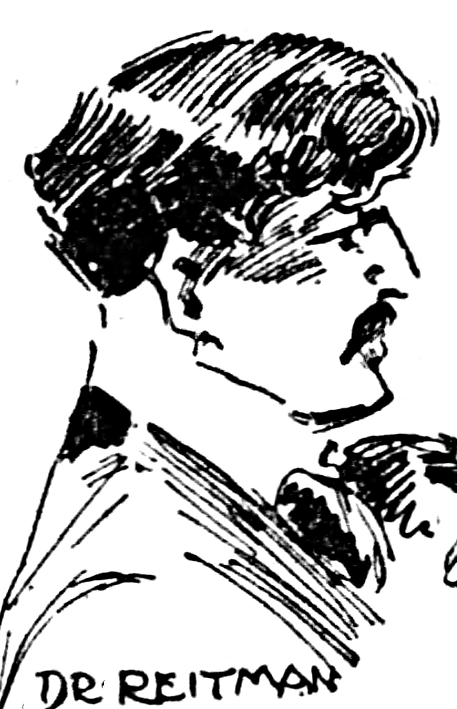 Profile sketch of anarchist Ben Reitman